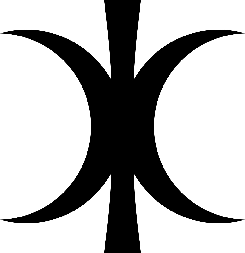 From the Principia Discordia and the Illuminatus! trilogy by Robert Shea and Robert Anton Wilson. In the Principia POEE is said to form a bridge from Pisces to Aquarius (p76). The initials stand for Paratheo-anametamystikhood of Eris Esoteric (Principia, p29)